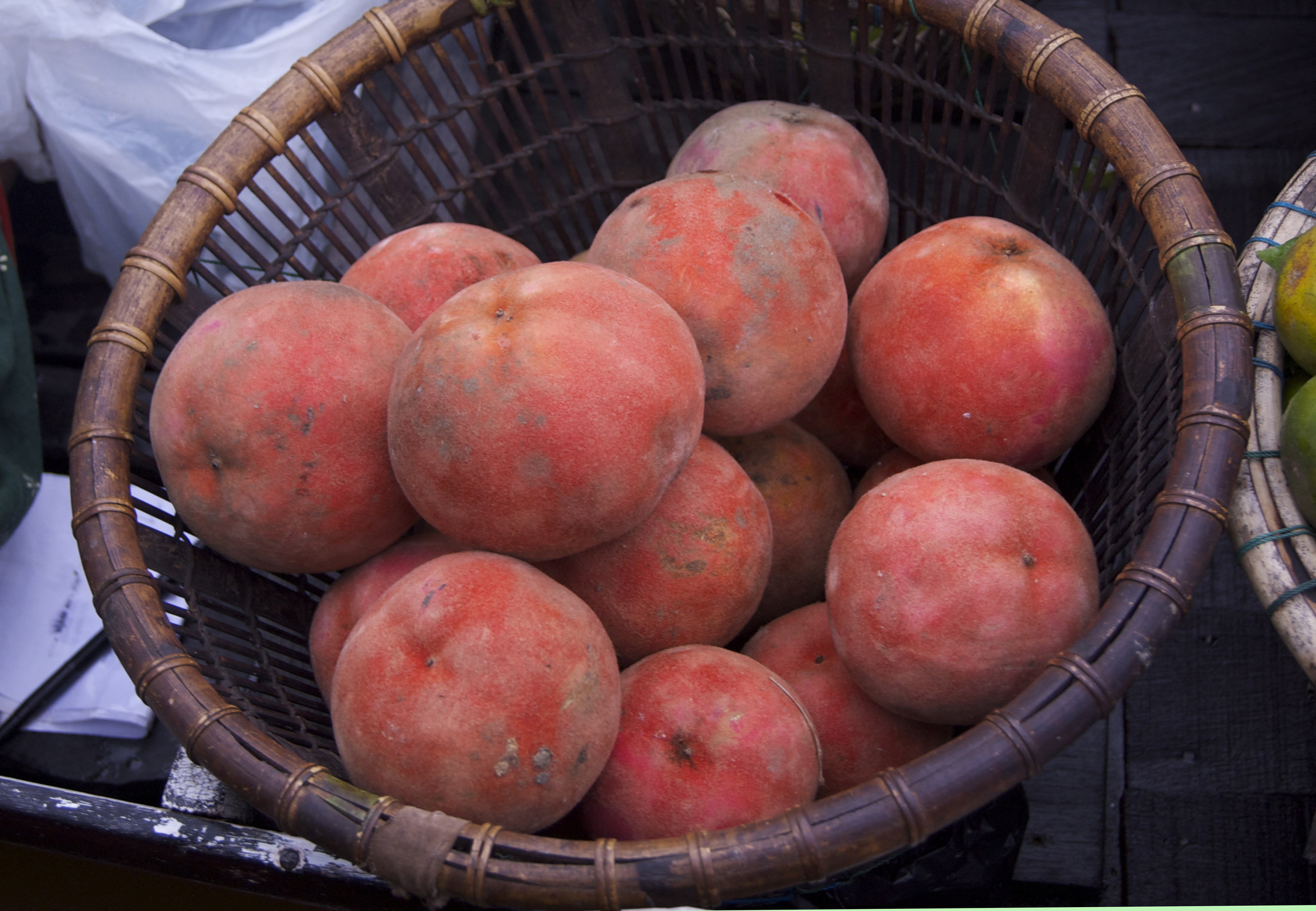 Lok Baintan Floating Market is located in Banjar Regency, South Kalimantan, less than an hour from central Banjarmasin by klotok (traditional boat).